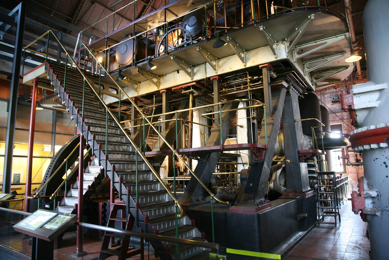 The Leavitt-Riedler steam pumping engine in the Metropolitan Waterworks Museum in Boston. MA.